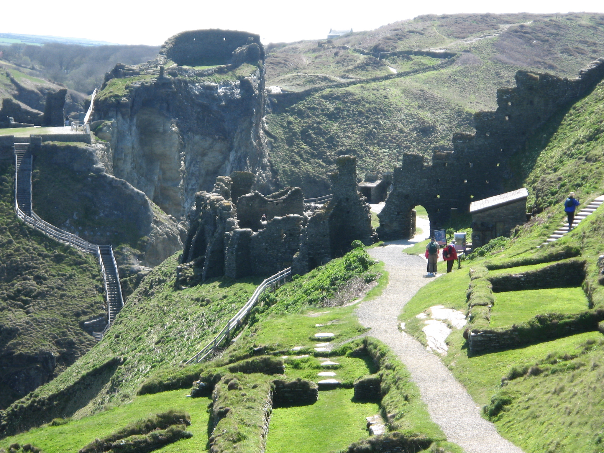 So much to see at Tintagel, although i should imagine living here was a bit drafty.